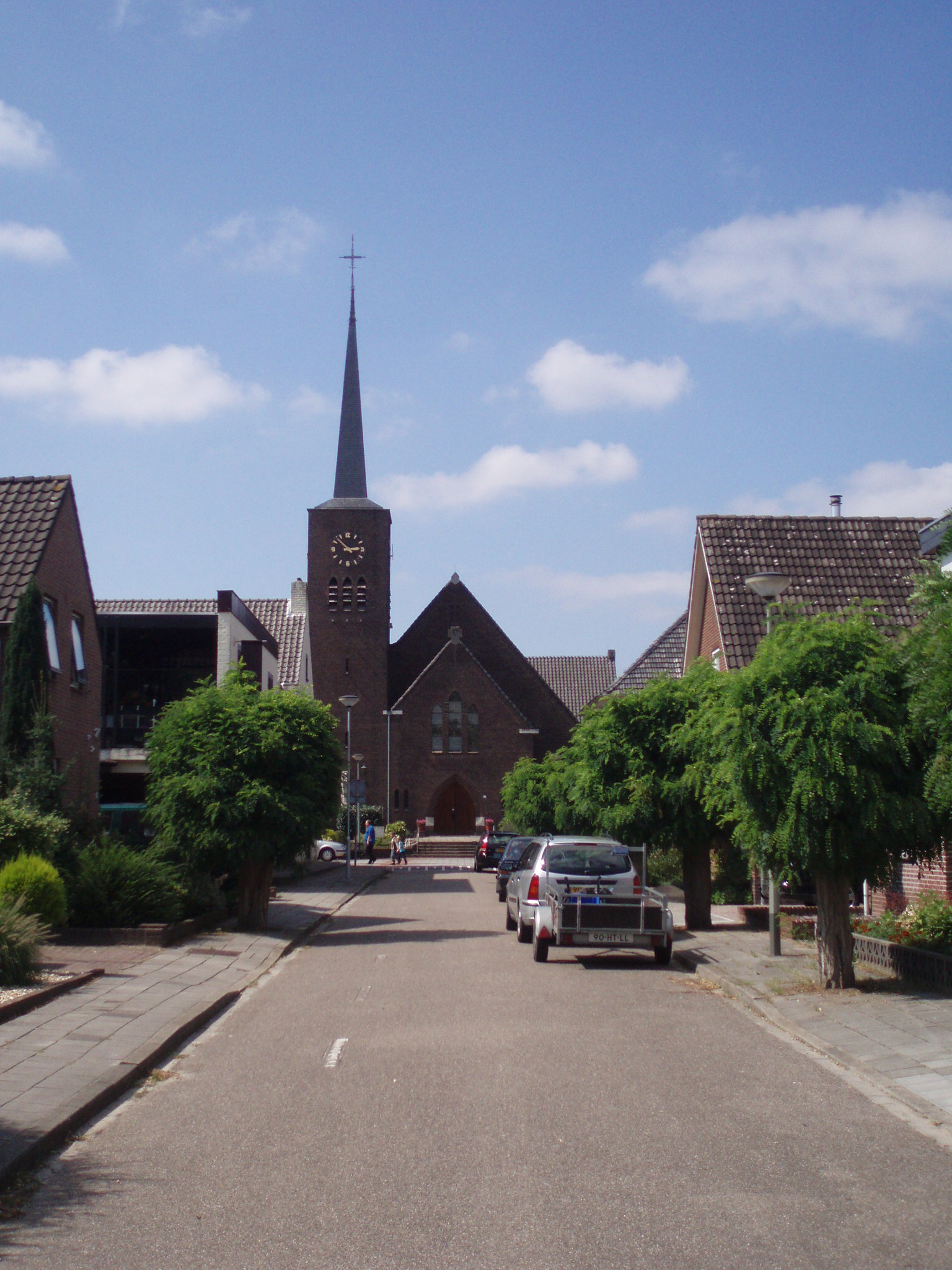 Roman Catholic church of Milsbeek, Netherlands